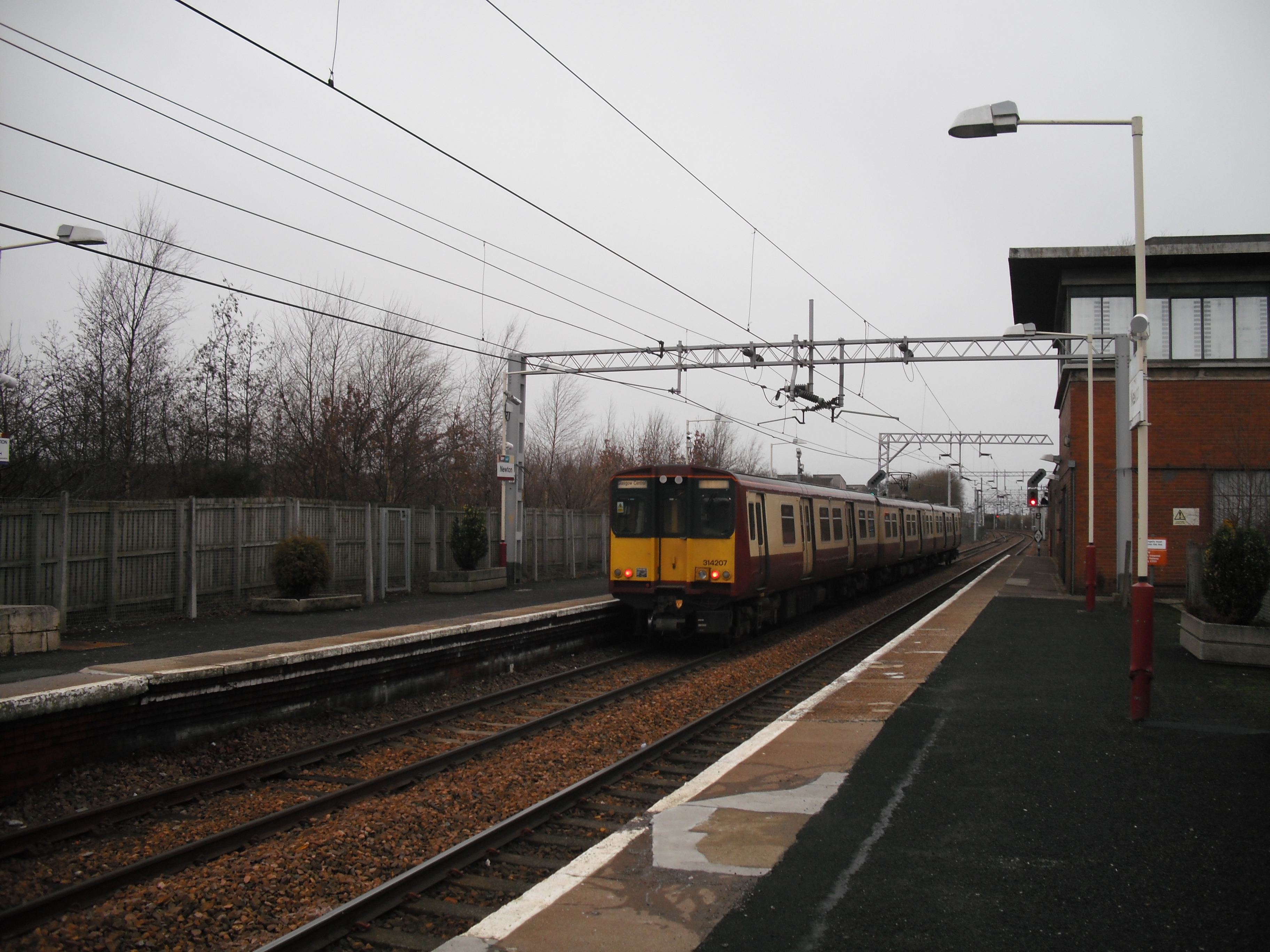 A class 314 at Newton railway station